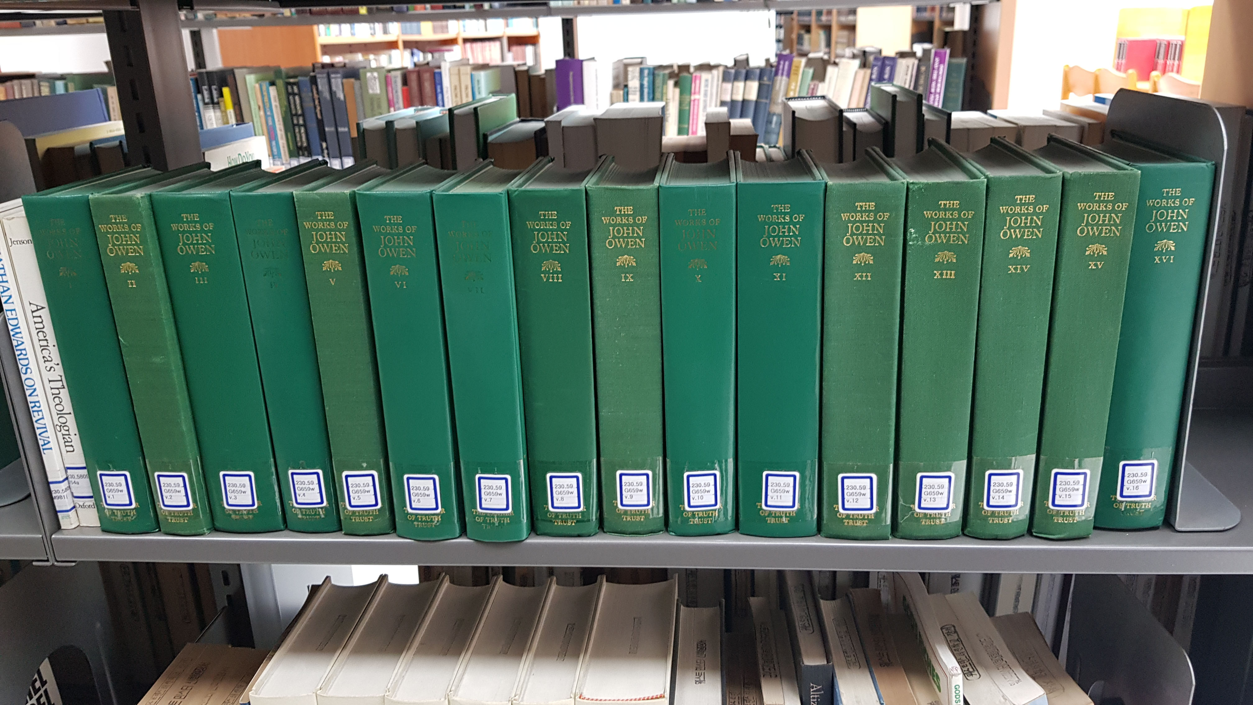 Writings of John Owen